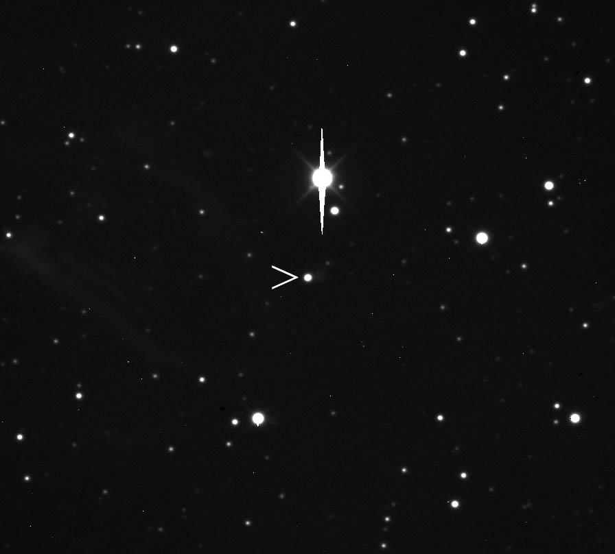 8 minute exposure of Jupiter Trojan 624 Hektor with a 24" telescope. Hektor is apparent magnitude 15.0 in this image taken at 2009-09-29 10:00 UT. The bright star blooming above asteroid Hektor is TYC 2351-444-1 at magnitude 9.9 (about the limit of typical 50mm binoculars). The star on the right of the bloom that is comparable to Hektor is magnitude 14.8. The star to the far lower left of Hektor (showing very mild blooming) is magnitude 12.7.